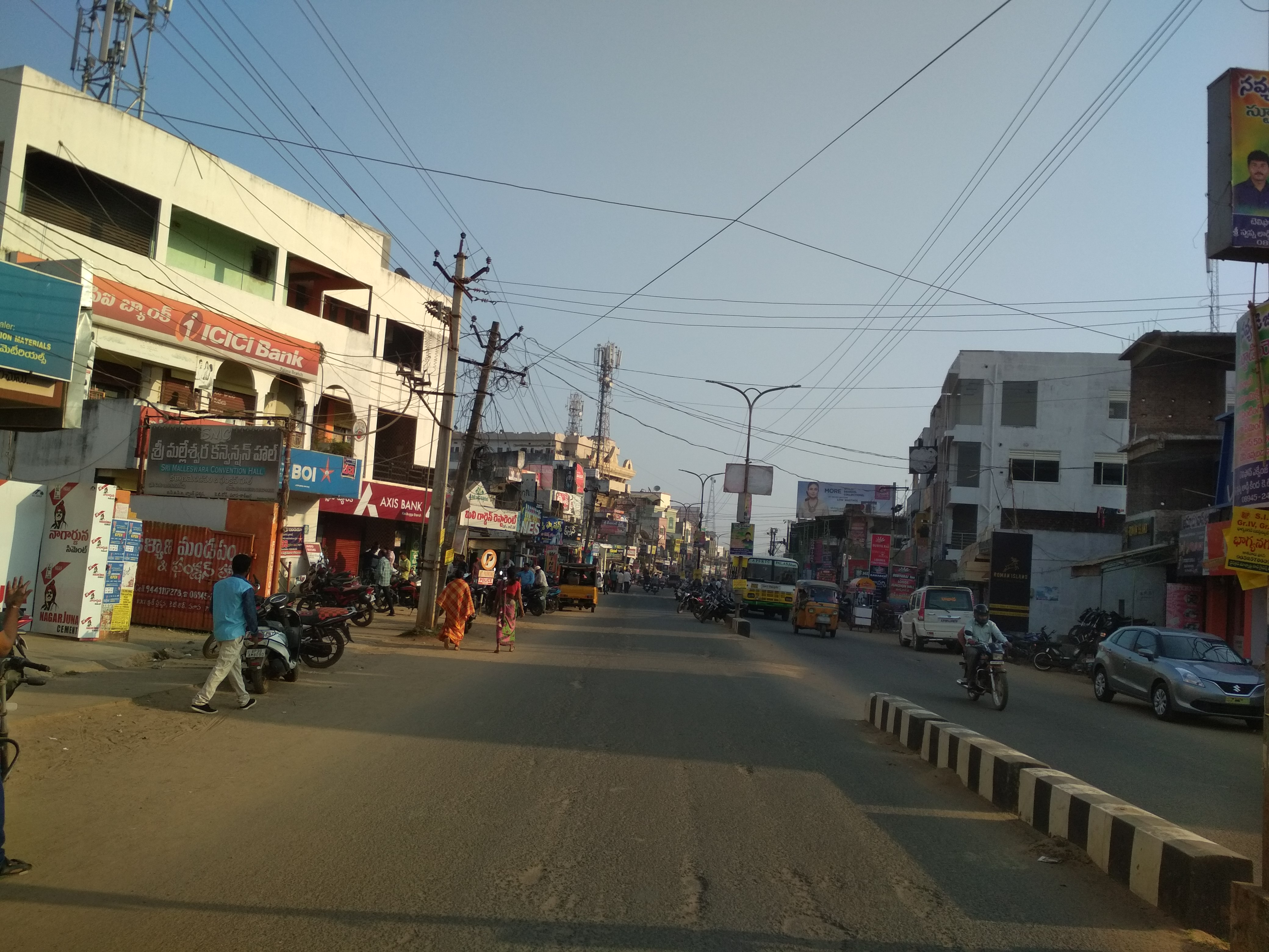 Palasa main road